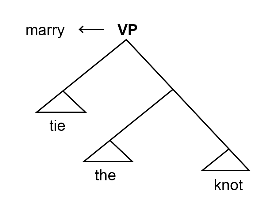 This is a subtree for the idiom "tie the knot" using a Nanosyntax approach.